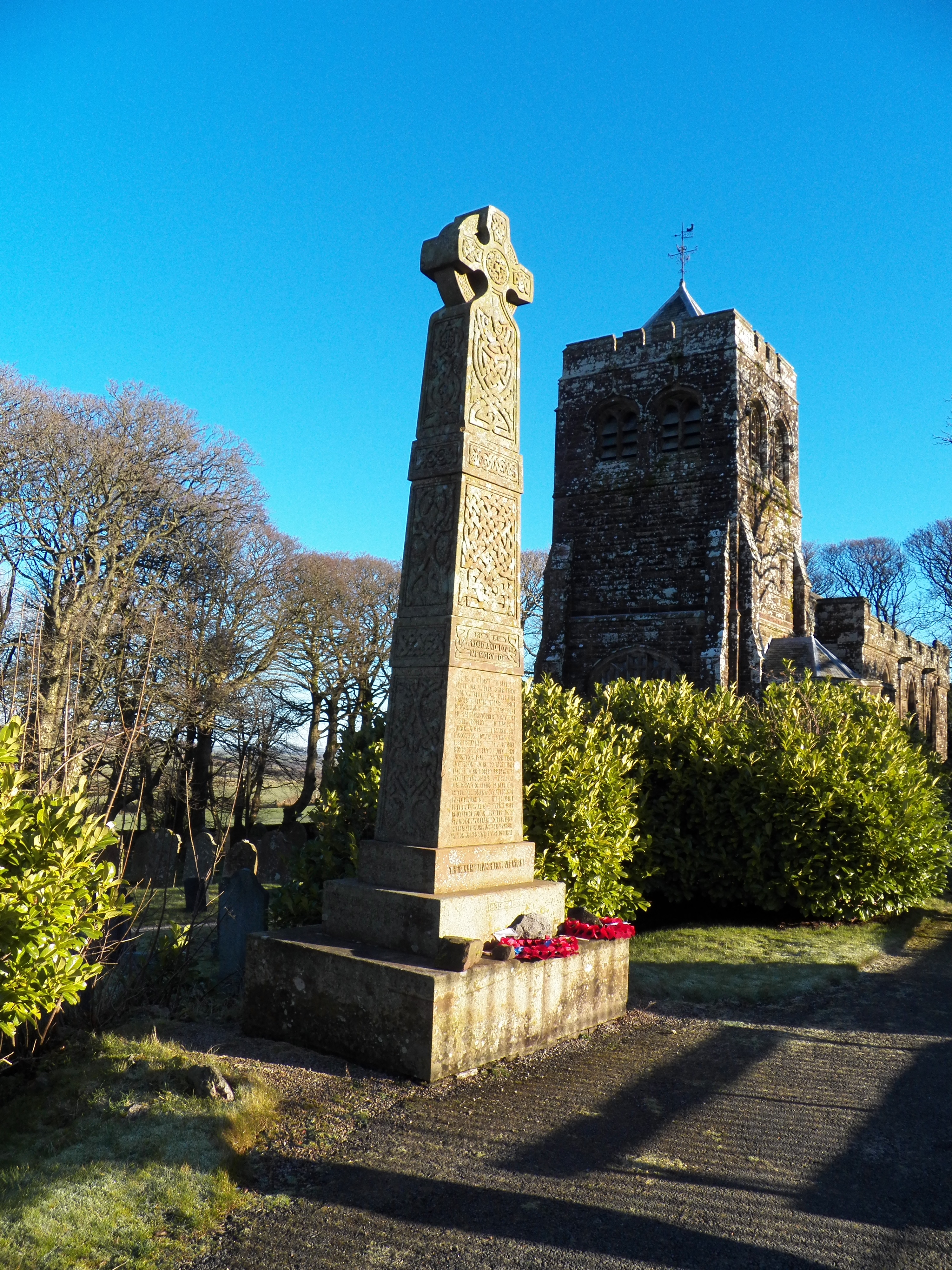 View of Arlecdon church and war memorial, Arlecdon, Cumbria